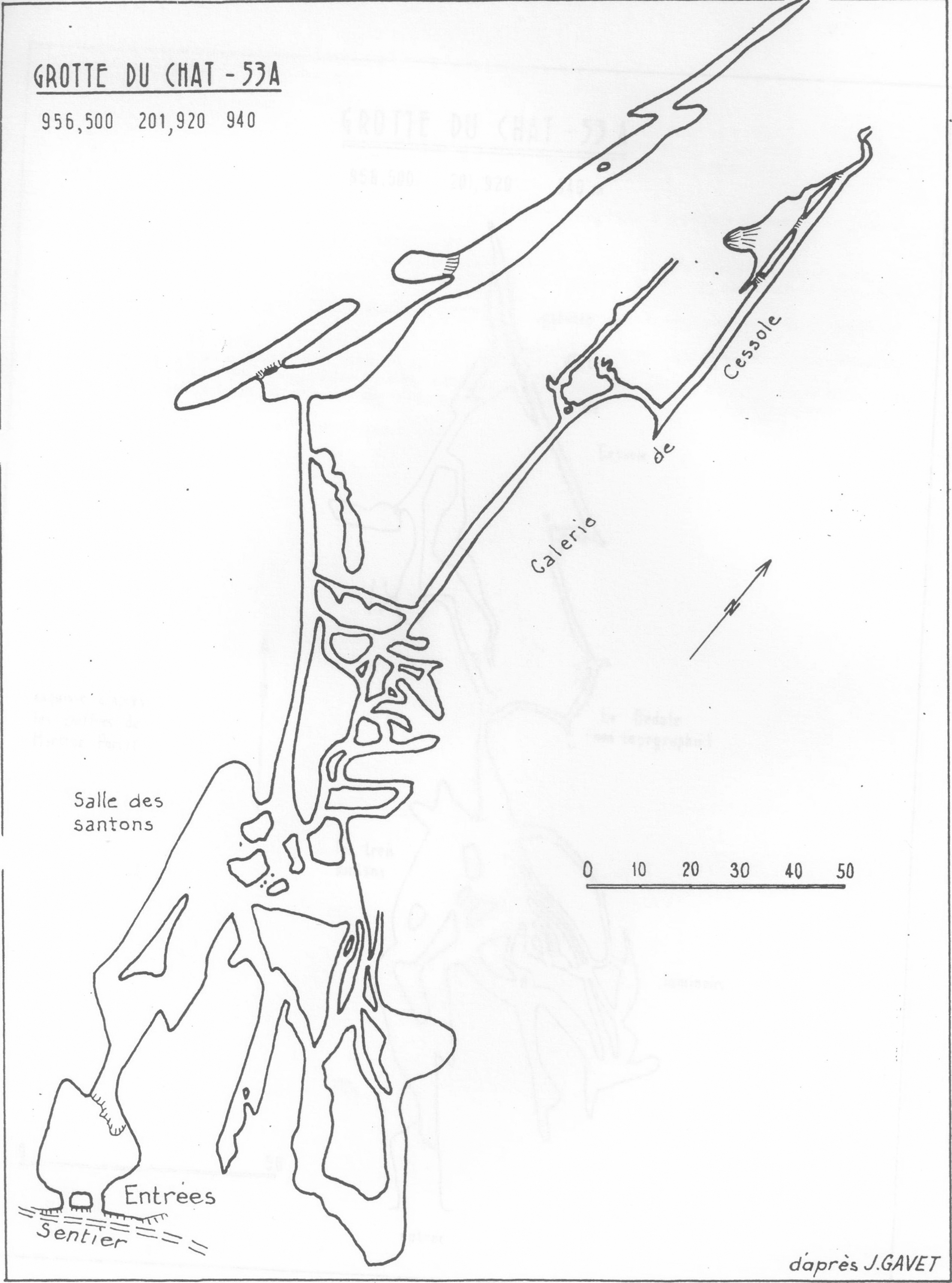 'Cat' cave in Daluis (06) France